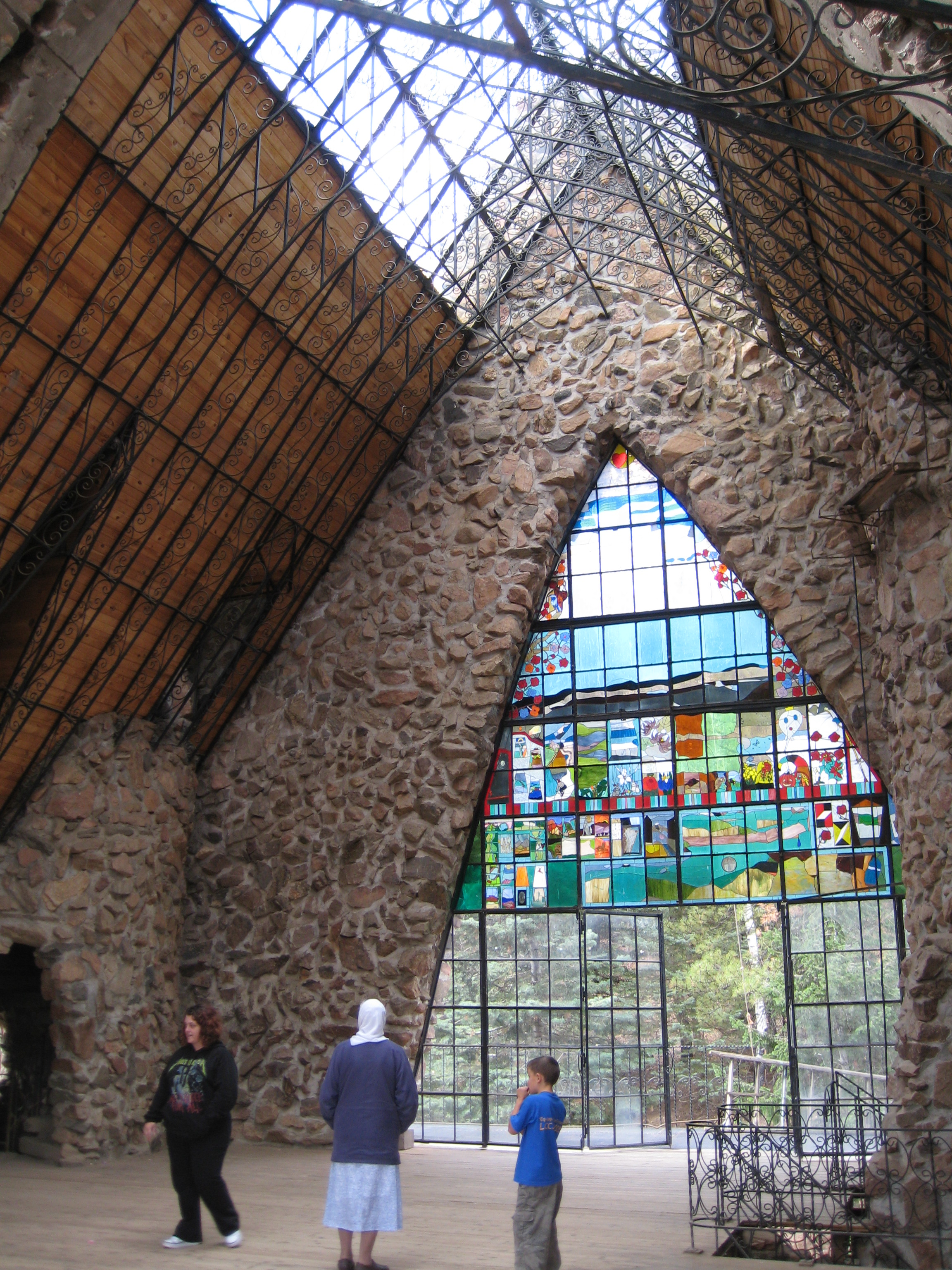 Inside Bishop Castle, Colorado